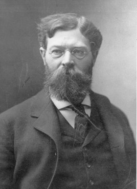 Portrait of William DeWitt Hyde, president of Bowdoin College. 18 x 13 cm. Silver gelatin photoprint. Image courtesy of the Bowdoin University Library, Bowdoin College, Brunswick, Maine.